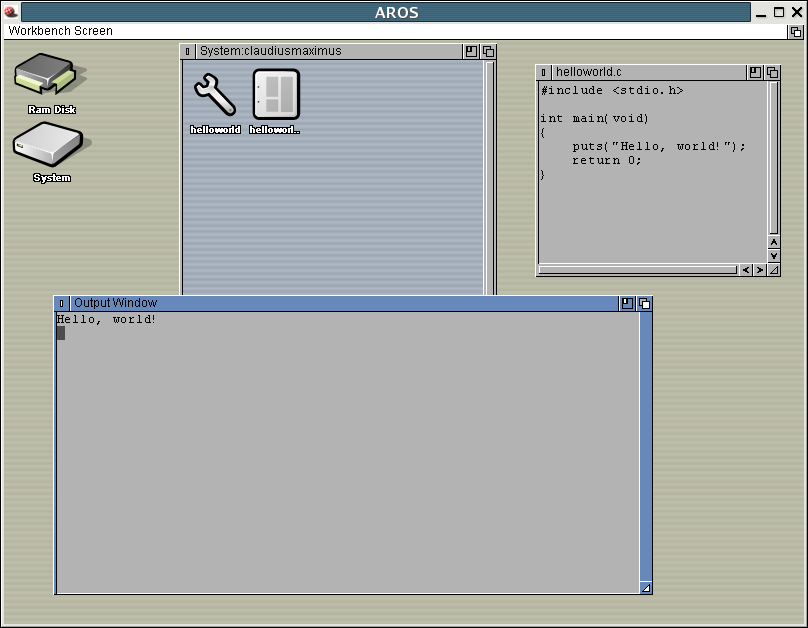 AROS running helloworld.c